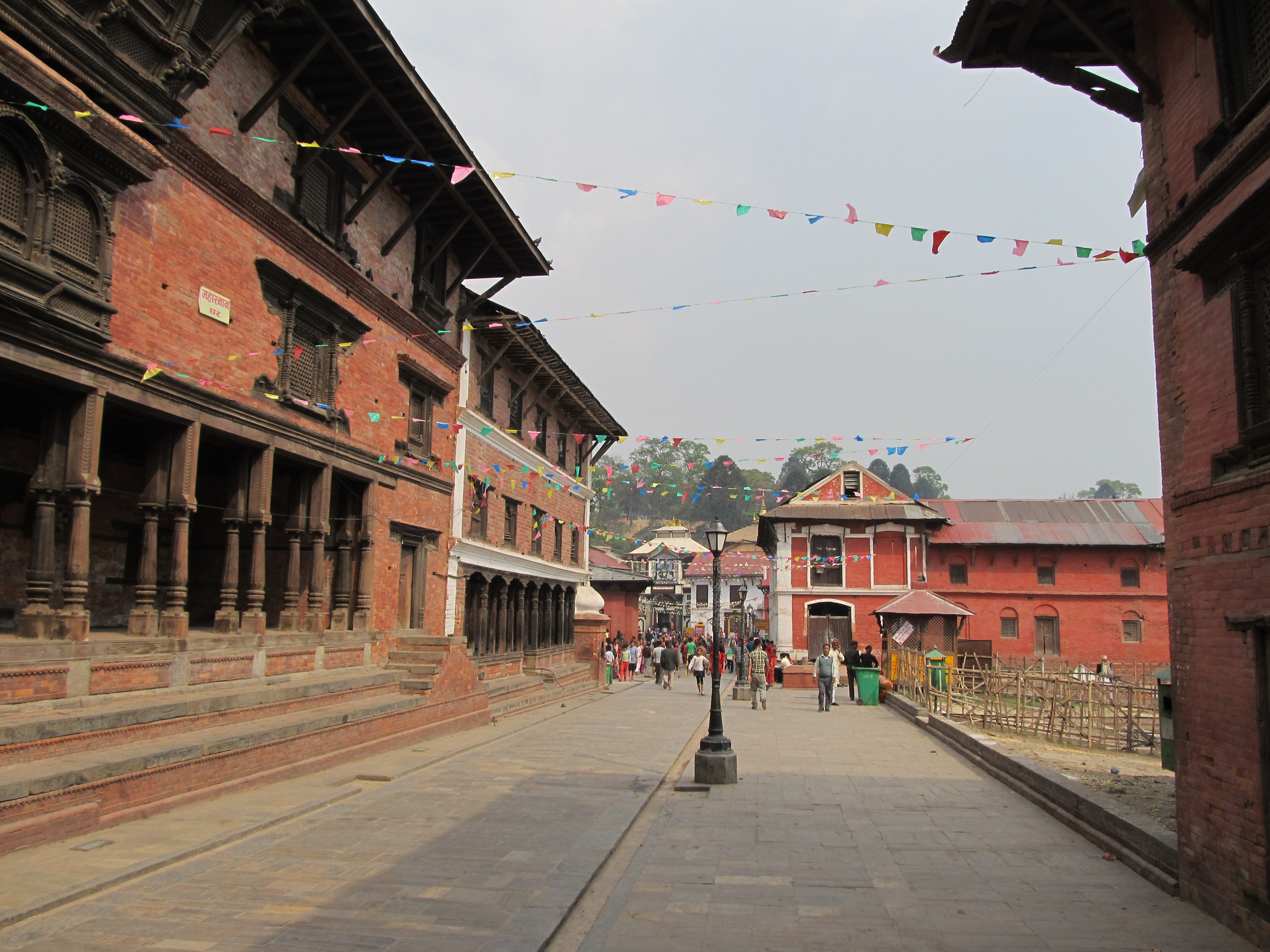 Looking into Pashupatinaath temple grounds from north-western entrance